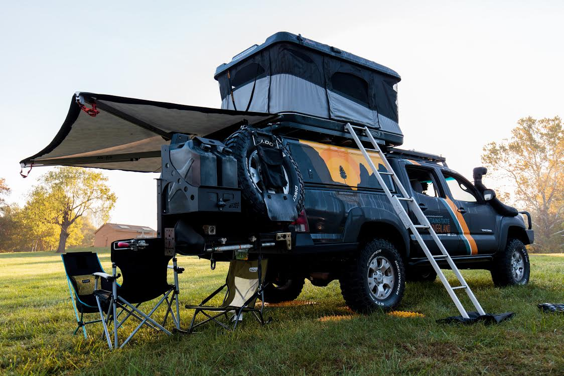 Roof Top Tent Rally 2018